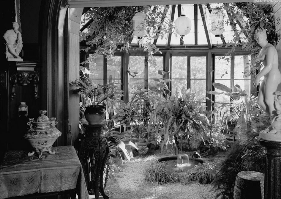 Mark Twain House, 351 Farmington Avenue, Hartford, Hartford County, CT - Observatory.